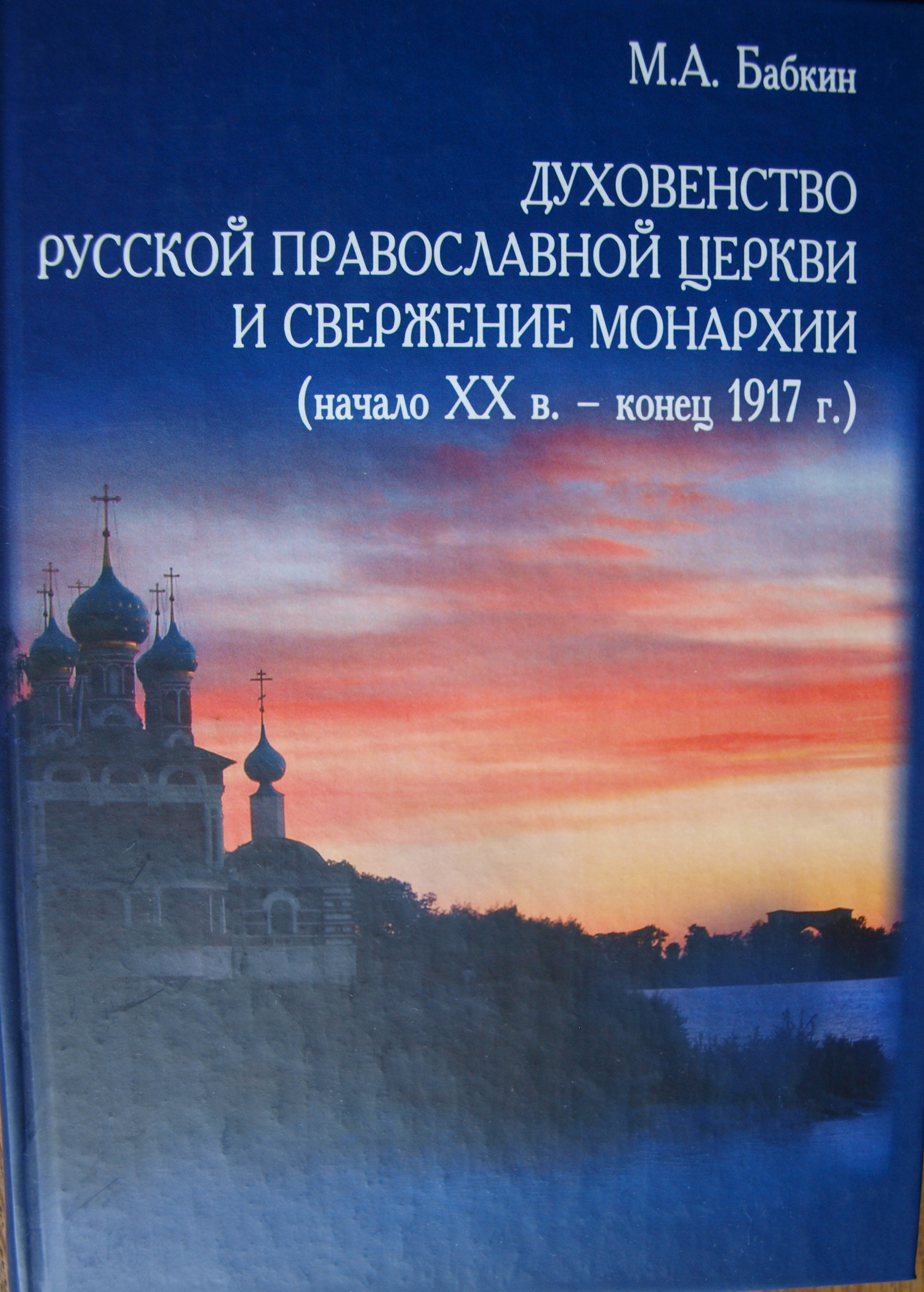 OLYMPUS DIGITAL CAMERA. Фото обложки моей монографии. Я - автор. ISBN 5-85209-176-6 (978-5-85209-176-5)